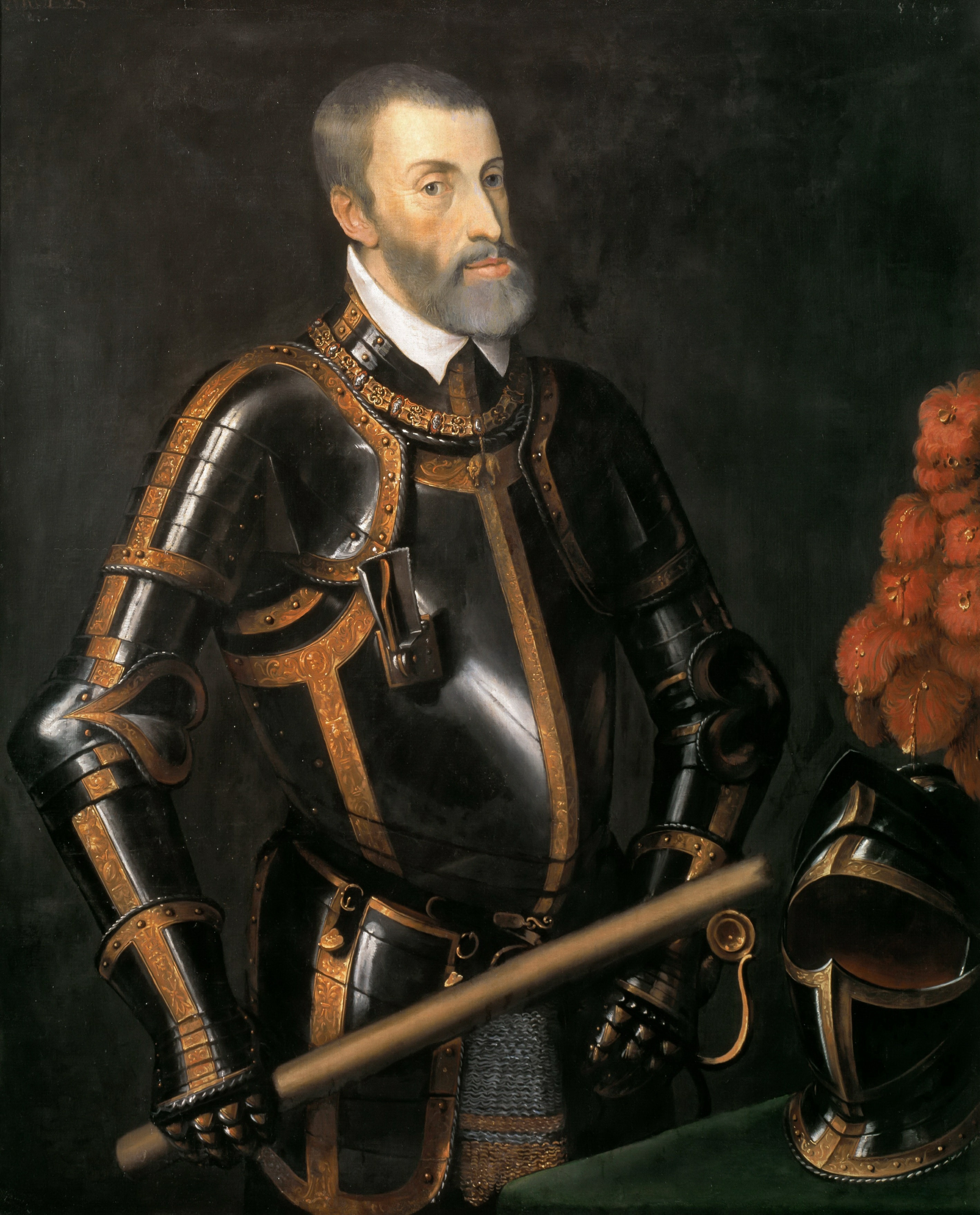 An elderly Karl V (also known as Don Carlos I of Spain), ruler of the Holy Roman Empire